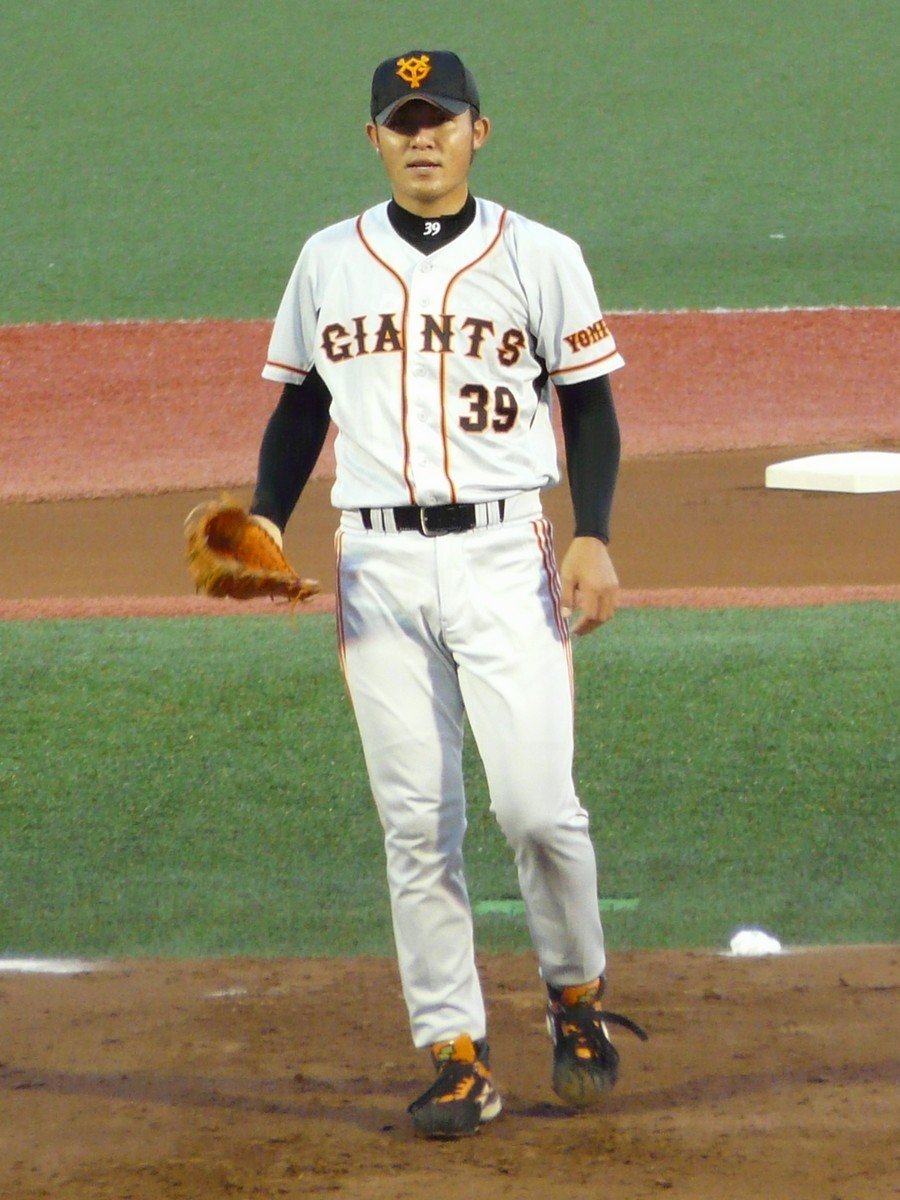 Takanobu-Tsujiuchi